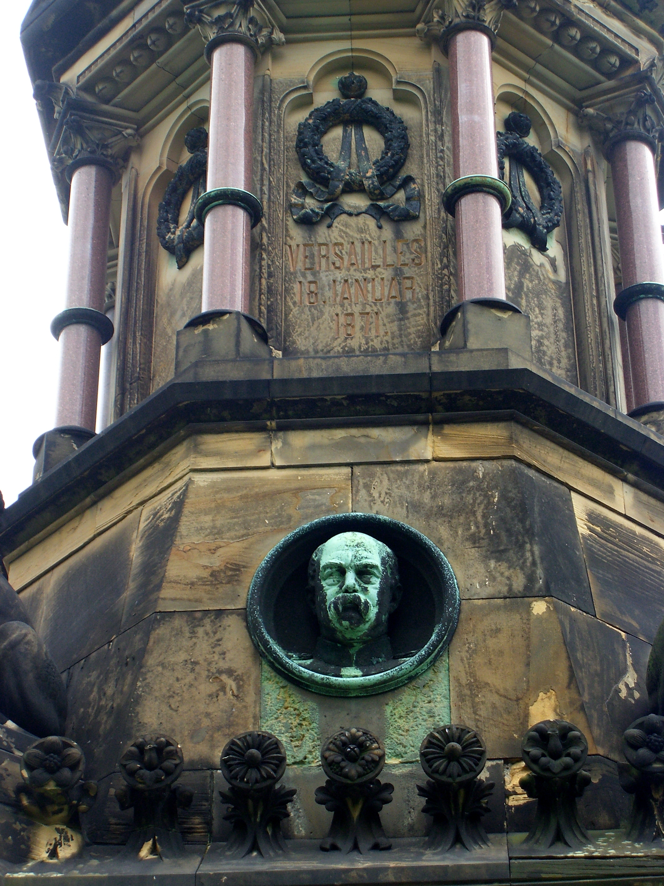 War memorial 1870/71 in Magdeburg, bust Otto von Bismarck, sculpted by Emil Hundrieser in 1877